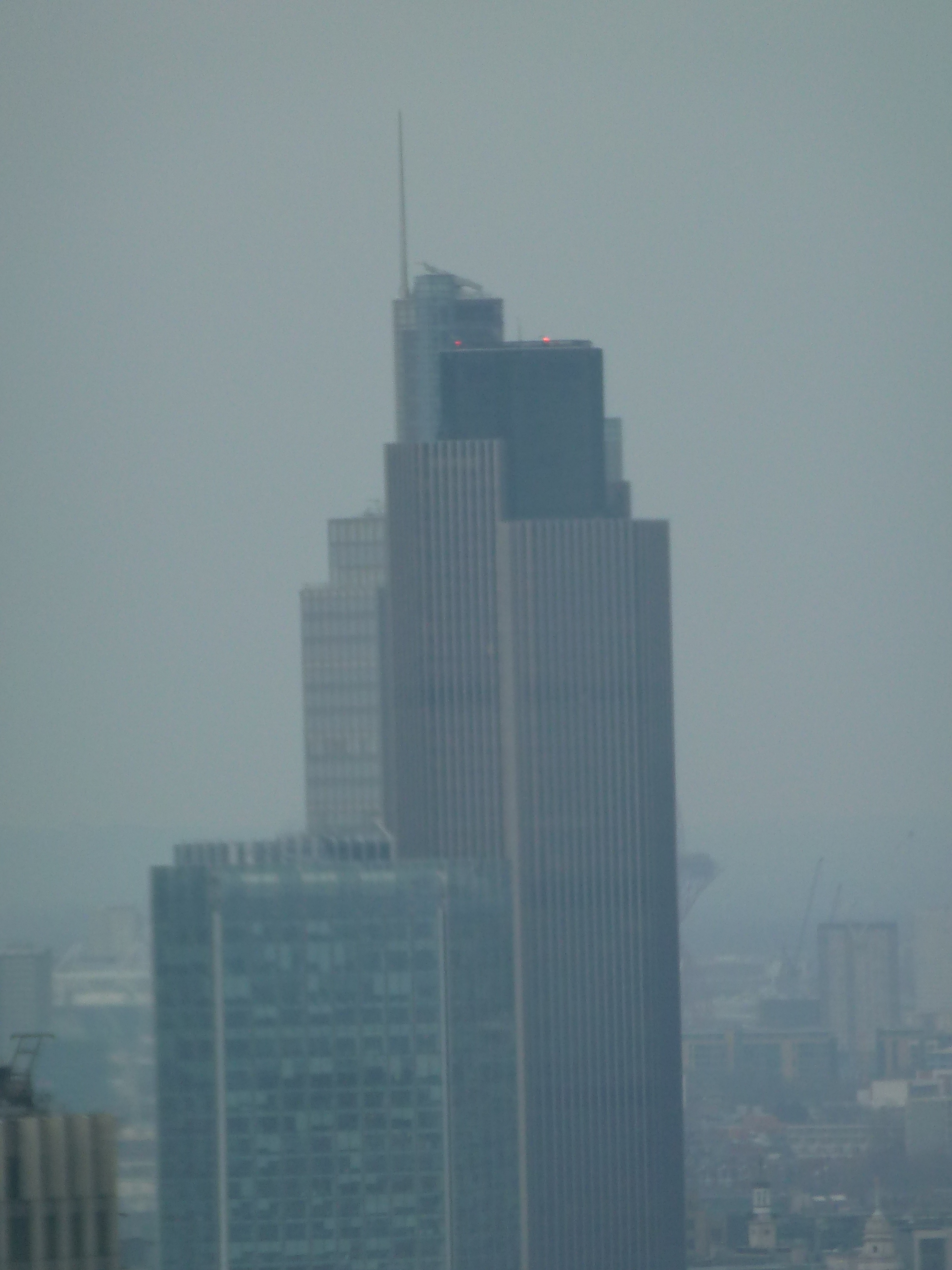 Tower 42 was originally named the National Westminster Tower. Constructed in 1971 and completed by 1980. Standing 600ft hight, it was the tallest skyscraper in the whole of the UK and in London alone until 1990 with the completion of One Canada Square, Canary Wharf, Tower Hamlets in 1990, itself loosing the tallest skyscraper title in the UK to Heron Tower, also in the City of London by 2011. In April 1993, the building sustained extensive damage following an IRA attack known as the Bishopgate bombing in which one person was killed. The building was refurbished internally which cost £75 million. It's now owned by the South African-born businessman Nathan Kirsh after the building was sold for £282.5 million in 2011. Photo taken on Wednesday 3rd April from inside the EDF Energy London Eye which is on the South Bank, London Borough of Lambeth (SE1)